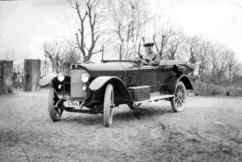 Swedish architect Paul Boberg in his Puch XII Alpenwagen 6/22 PS, model 1919-1920, outside Hemmesjö nya kyrka